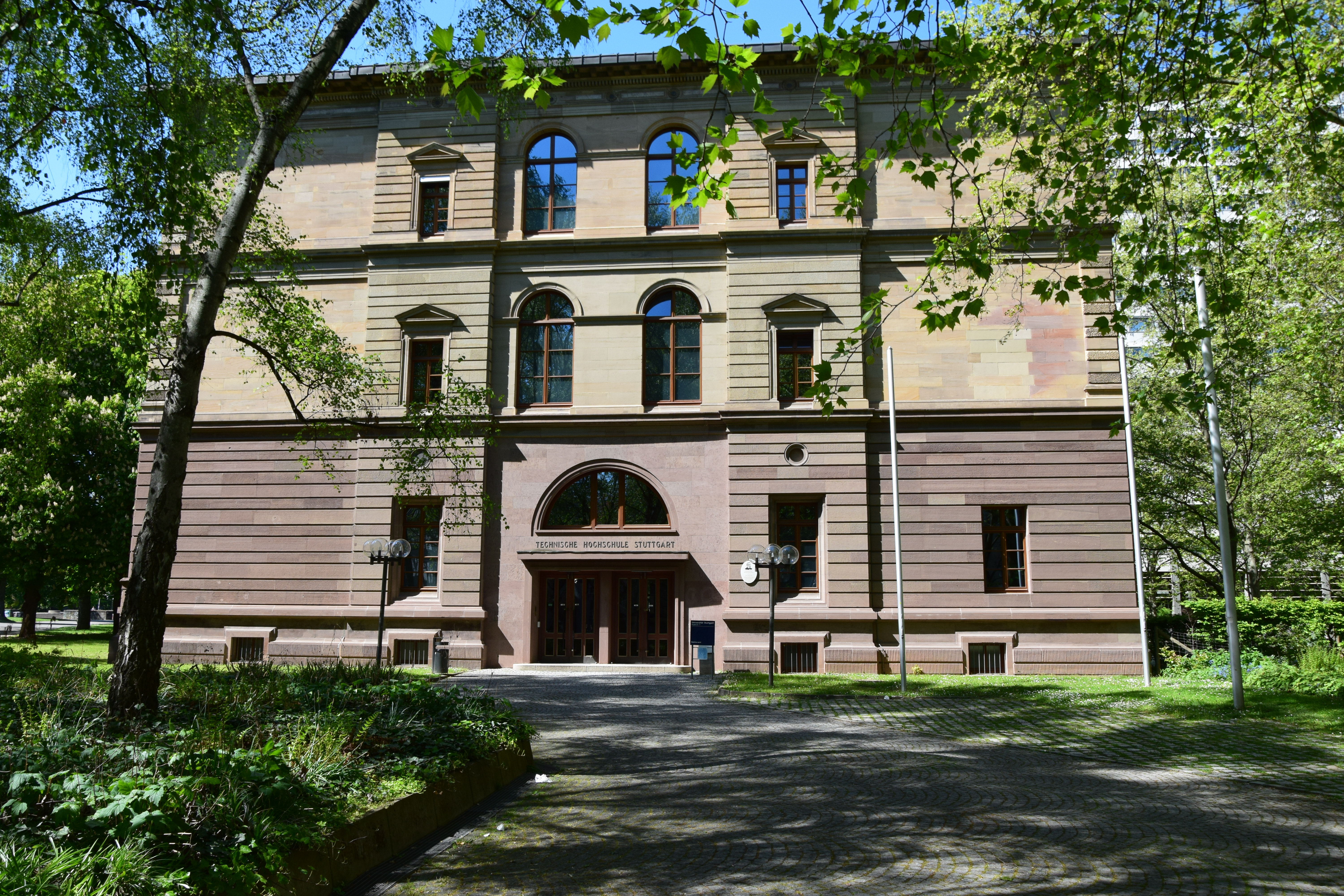 Original main construction of the former polytechnic. Today seat of the central management of the campus city centre of the university of Stuttgart, Baden-Wurttemberg, Germany. Built in the style of the Historismus from 1860 to 1864 from the architect Josef Egle. Extends from 1875 to 1879 from architects Christians Friedrich Leins and Alexander Tritschler. The construction jewellery comes from the sculptor Carl Eisele.